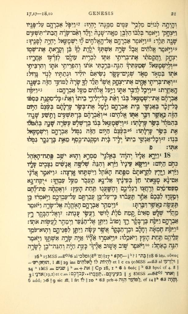 Genesis 17:17 - 18:10 in BHK 1909